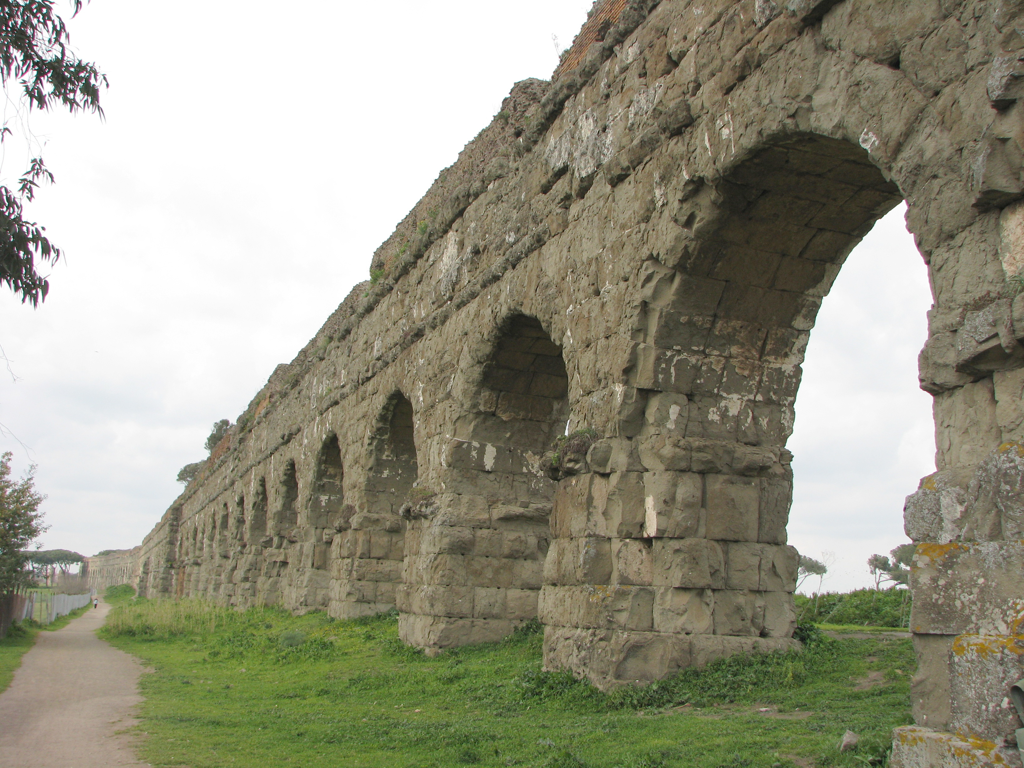 View of the Aqua Claudia near Rome, the longest unbroken stretch of an above-ground aqueduct near Via Lemonia, Rome with a length of 1375 m. On top of the Aqua Claudia is the Anio Novus channel The picture was taken on the top of the aqueduct where it dissapears underground